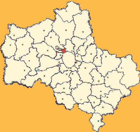 Moscow Region map by Al Silonov